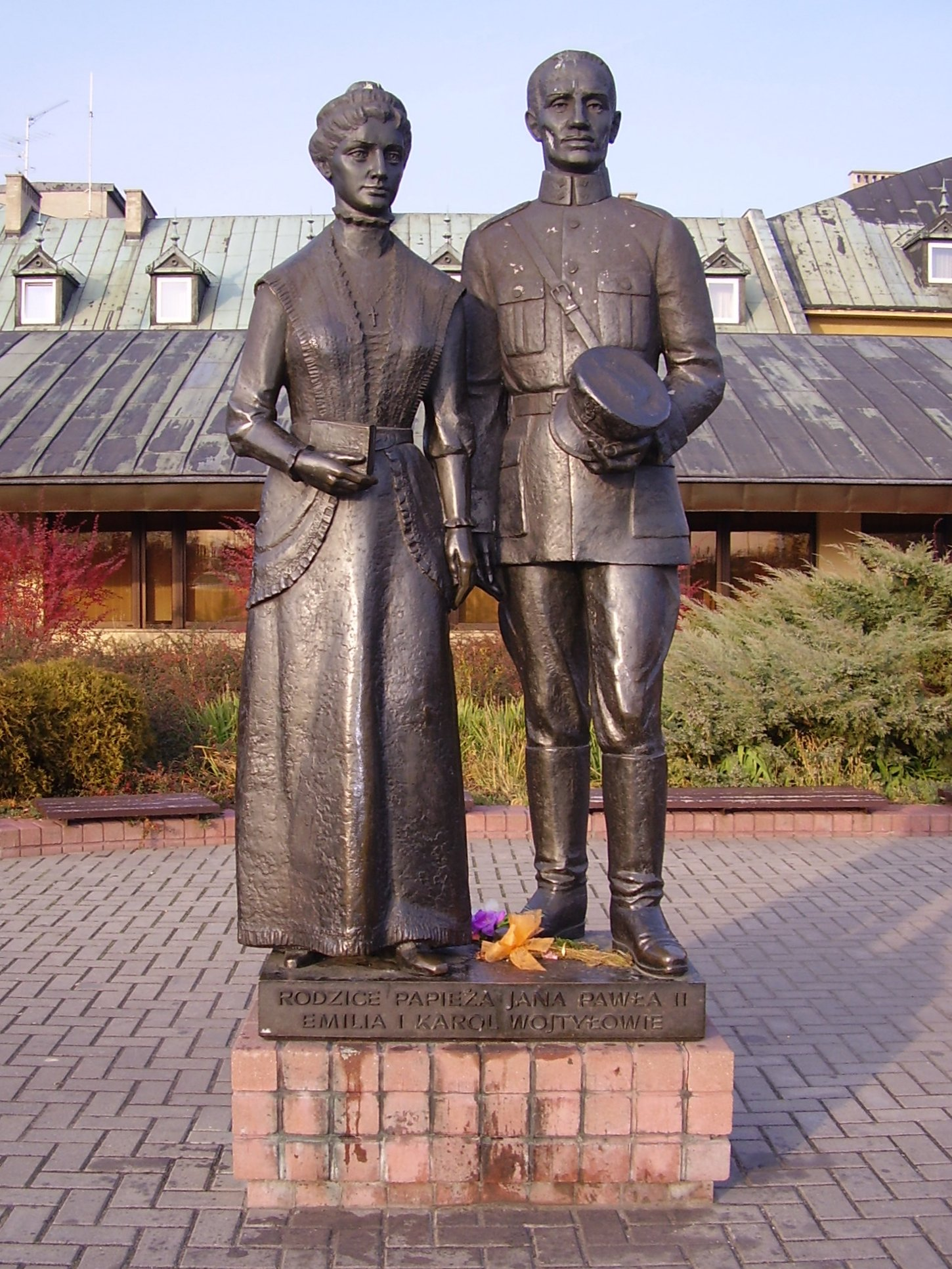 Monument of Emilia and Karol Wojtyła (senior), parents of Karol Wojtyła - pope Ioannes Paulus II, in Częstochowa.